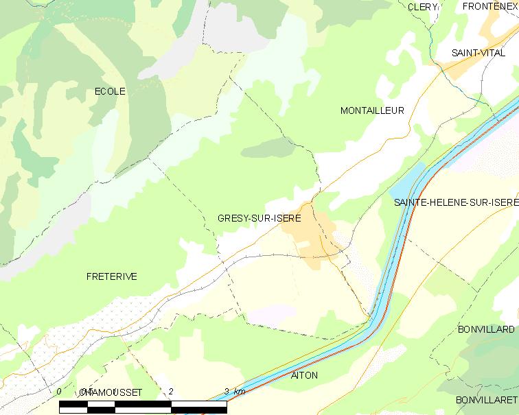 Map of French municipality